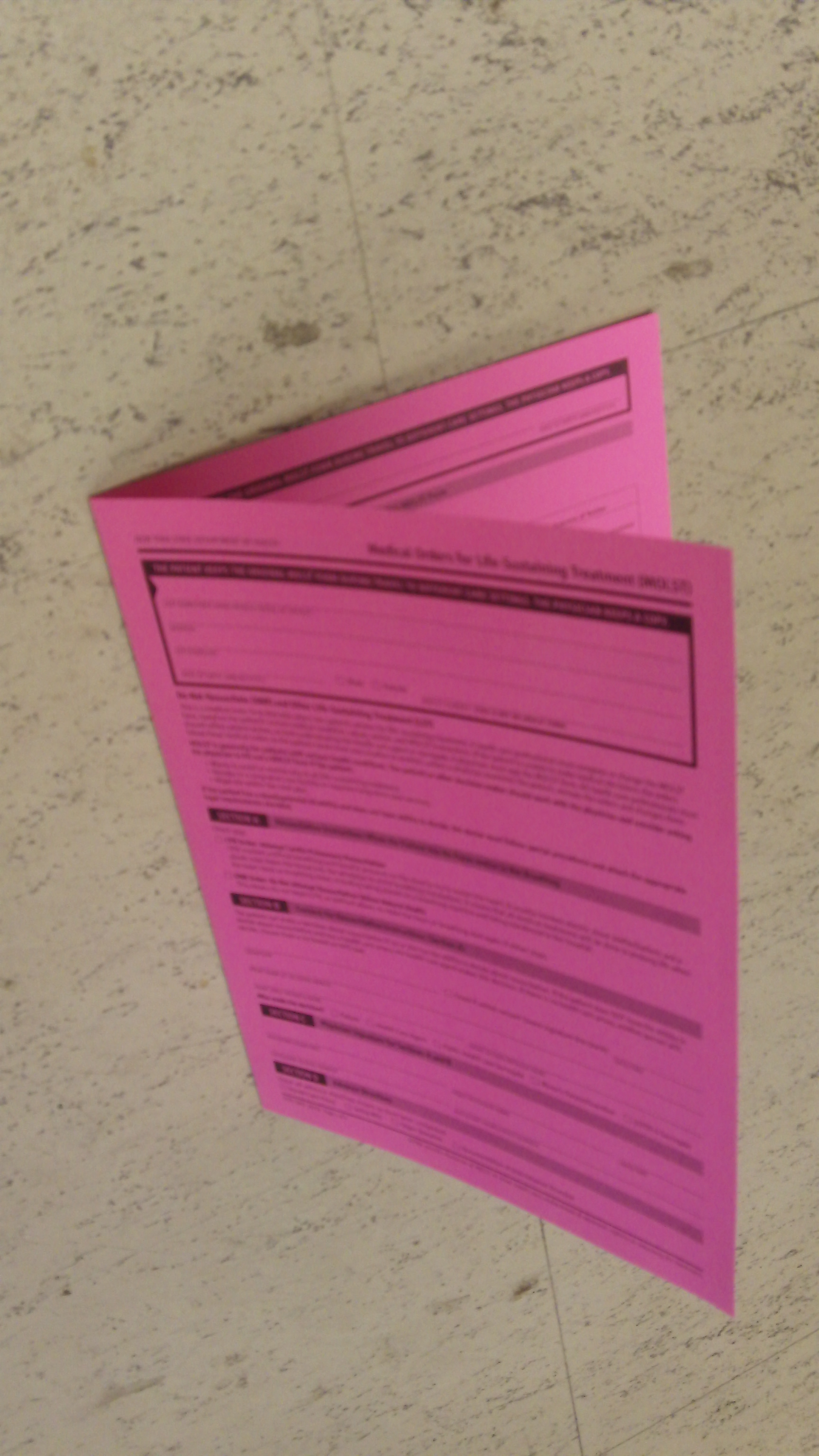 The New York State Department of Health MOLST form (DOH-5003)